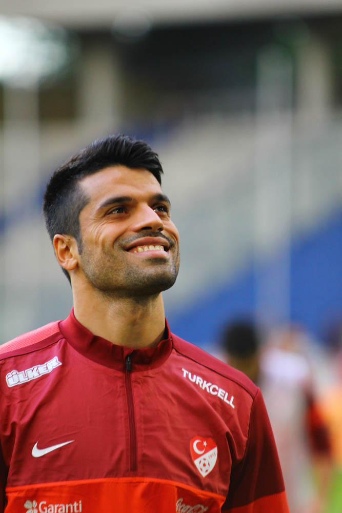 Turkish international football player Gökhan Zan